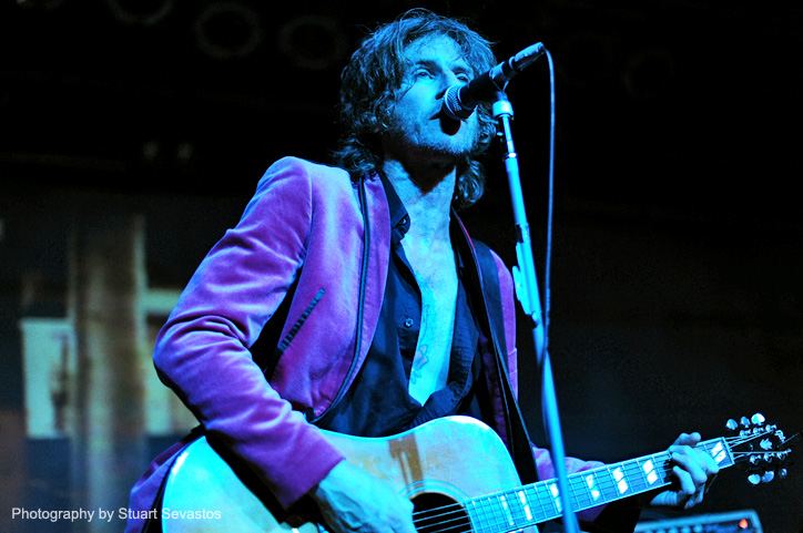 You Am I @ Fly By Night Club (18/11/2010)